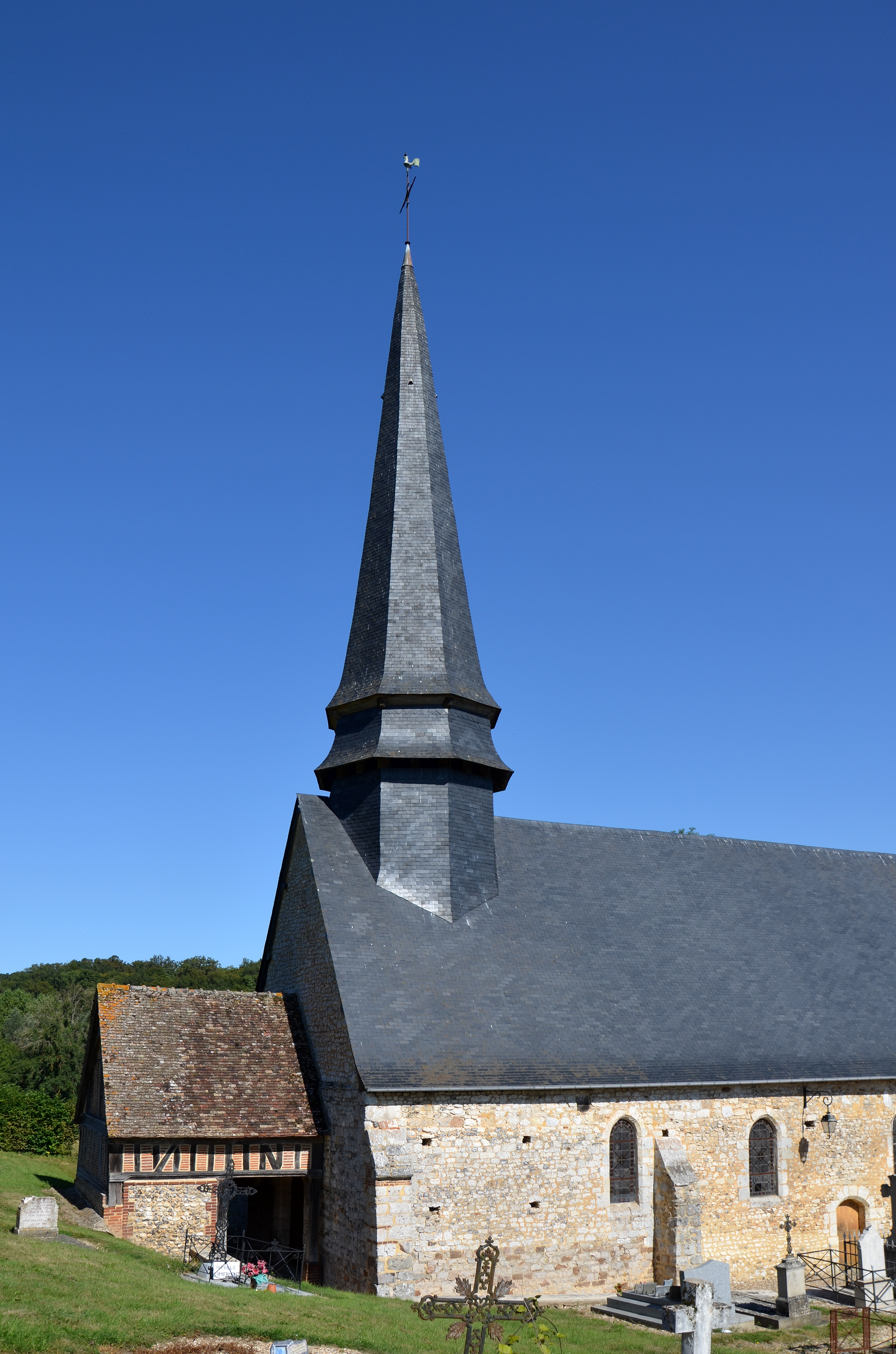 Church of Bézu-la-Forêt, Eure, Normandy, France